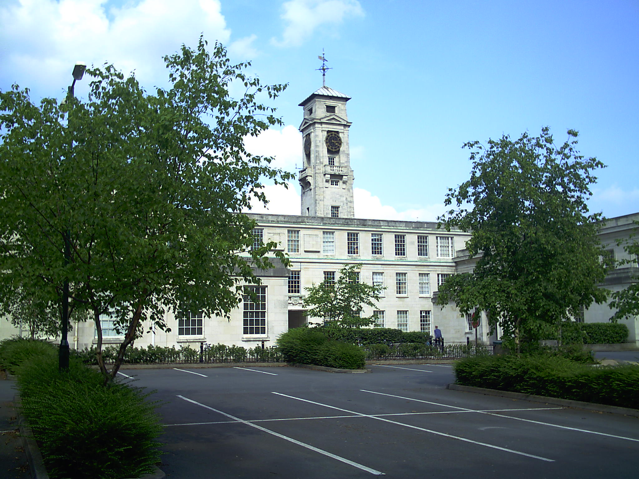 The University of Nottingham's Trent Building